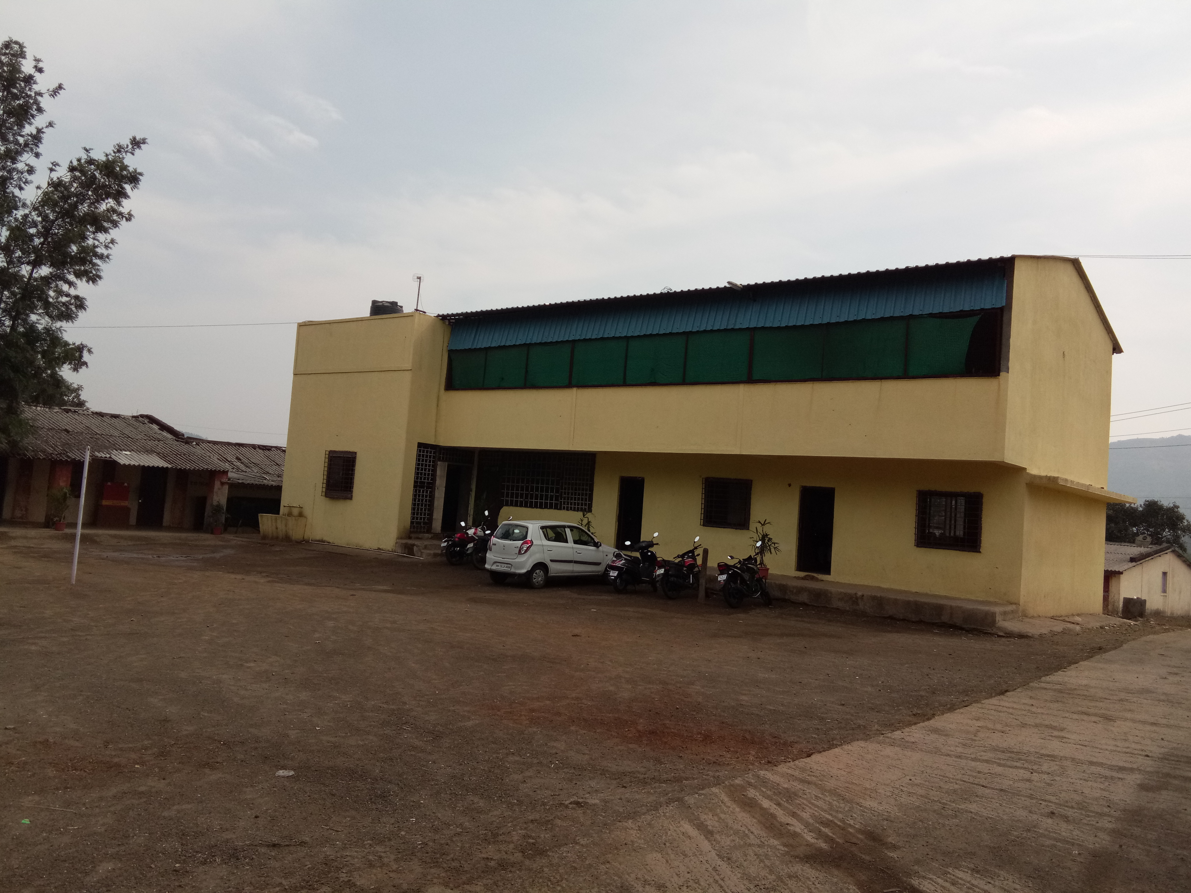 photograph